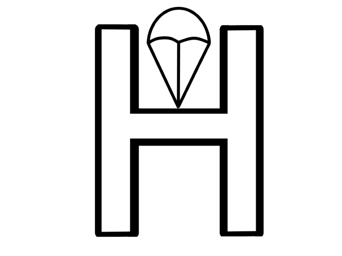 8. Fallschirm-Jäger-Division. German Army, World War II